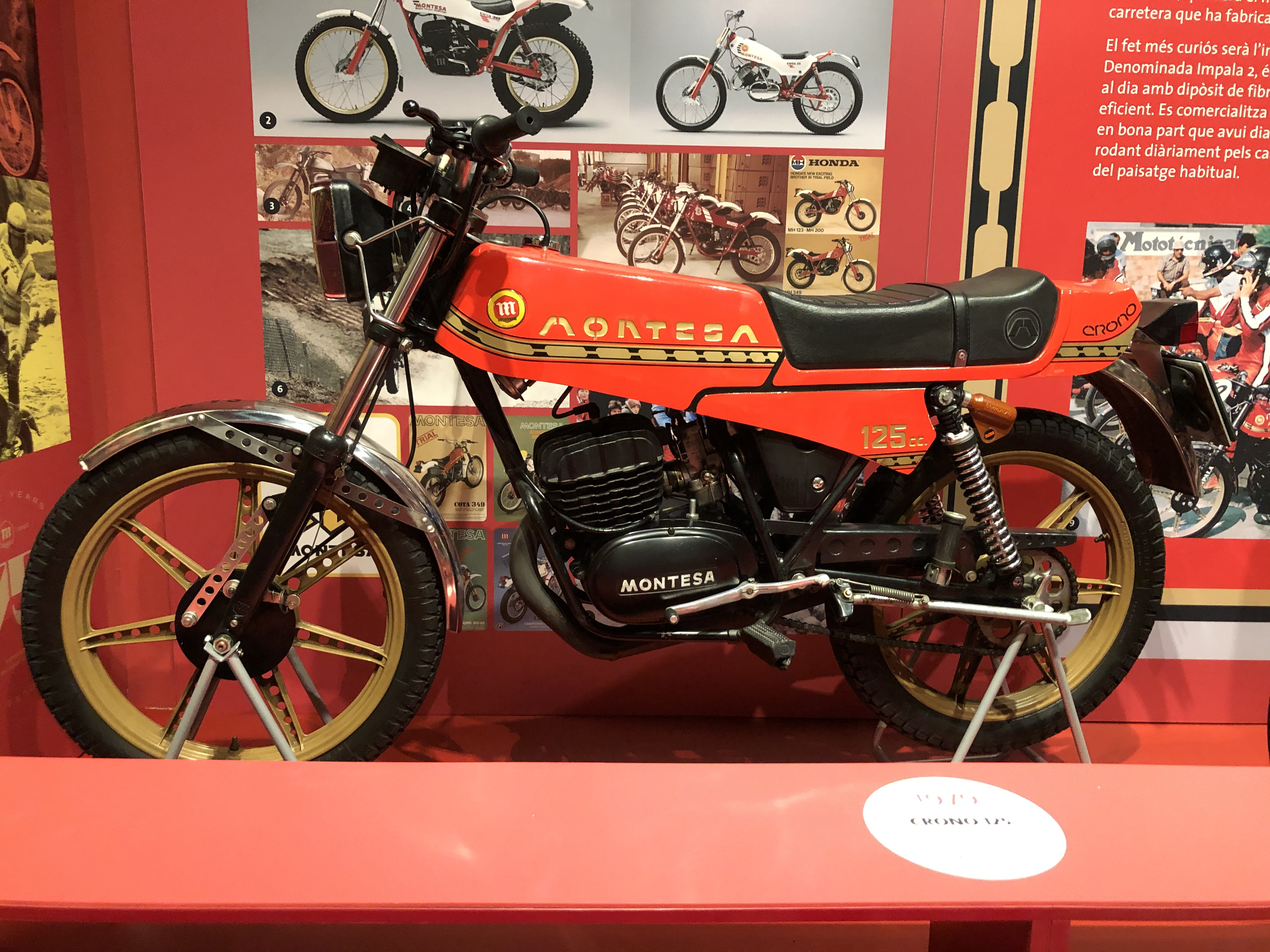 Montesa Crono 125 (1979), Mod. 52M, 123.5 cc